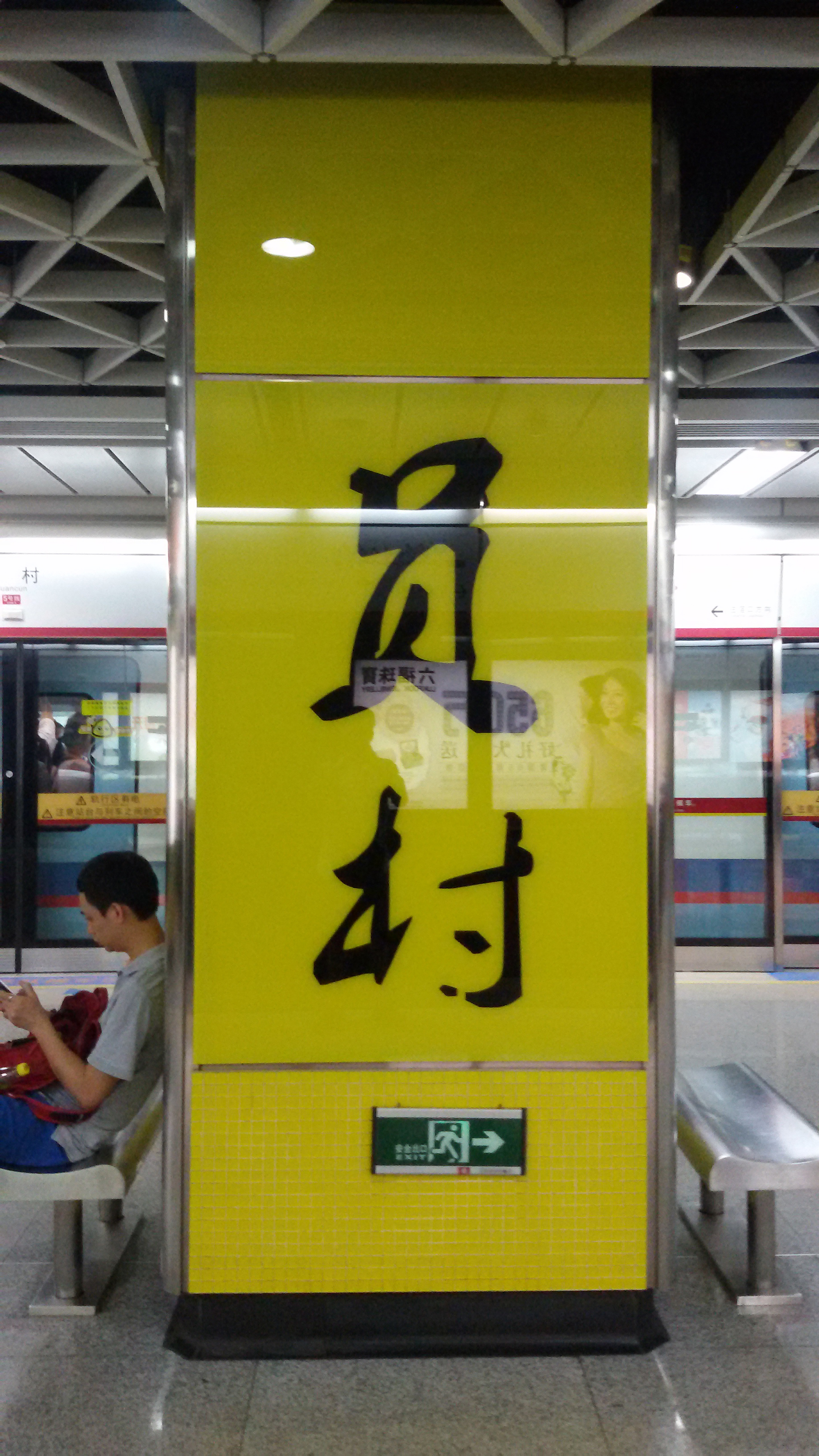 WORD on PILLAR for Yuancun Station in Guangzhou Metro.